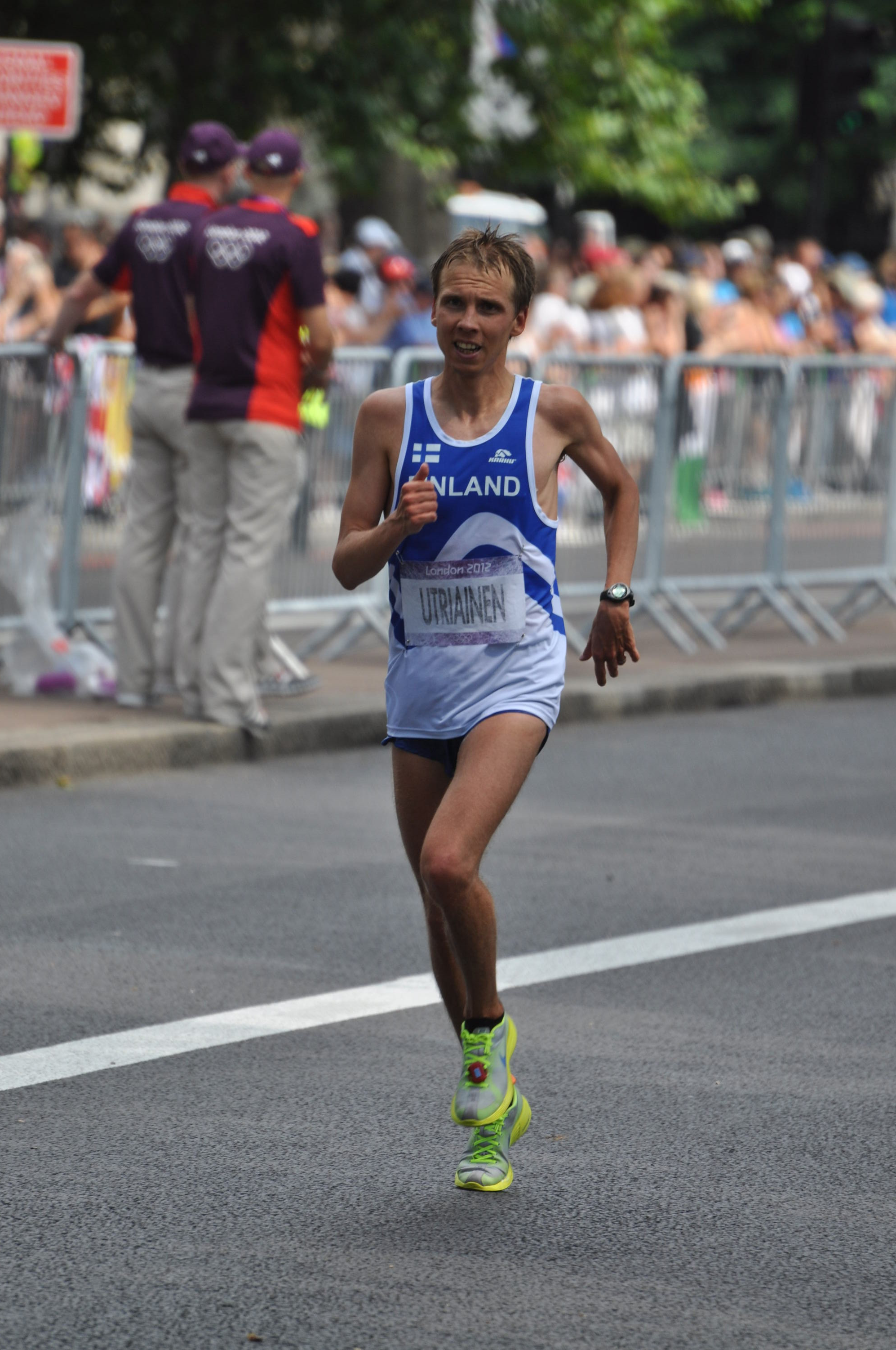 Jussi Utriainen - 2012 Olympic Marathon